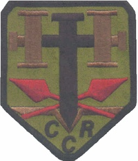 patch commonly worn by militia members beloging to the militia Hutaree